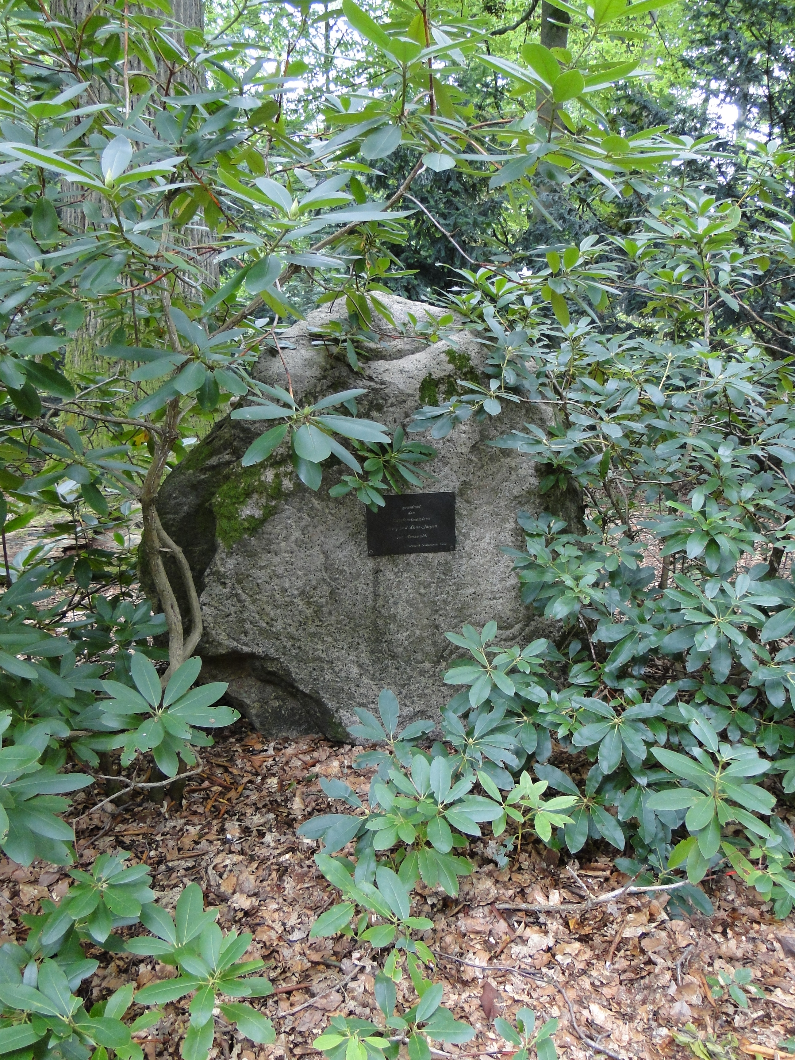 Arnswaldt memorial near Schlemmin, district Rostock, Mecklenburg-Vorpommern, Germany